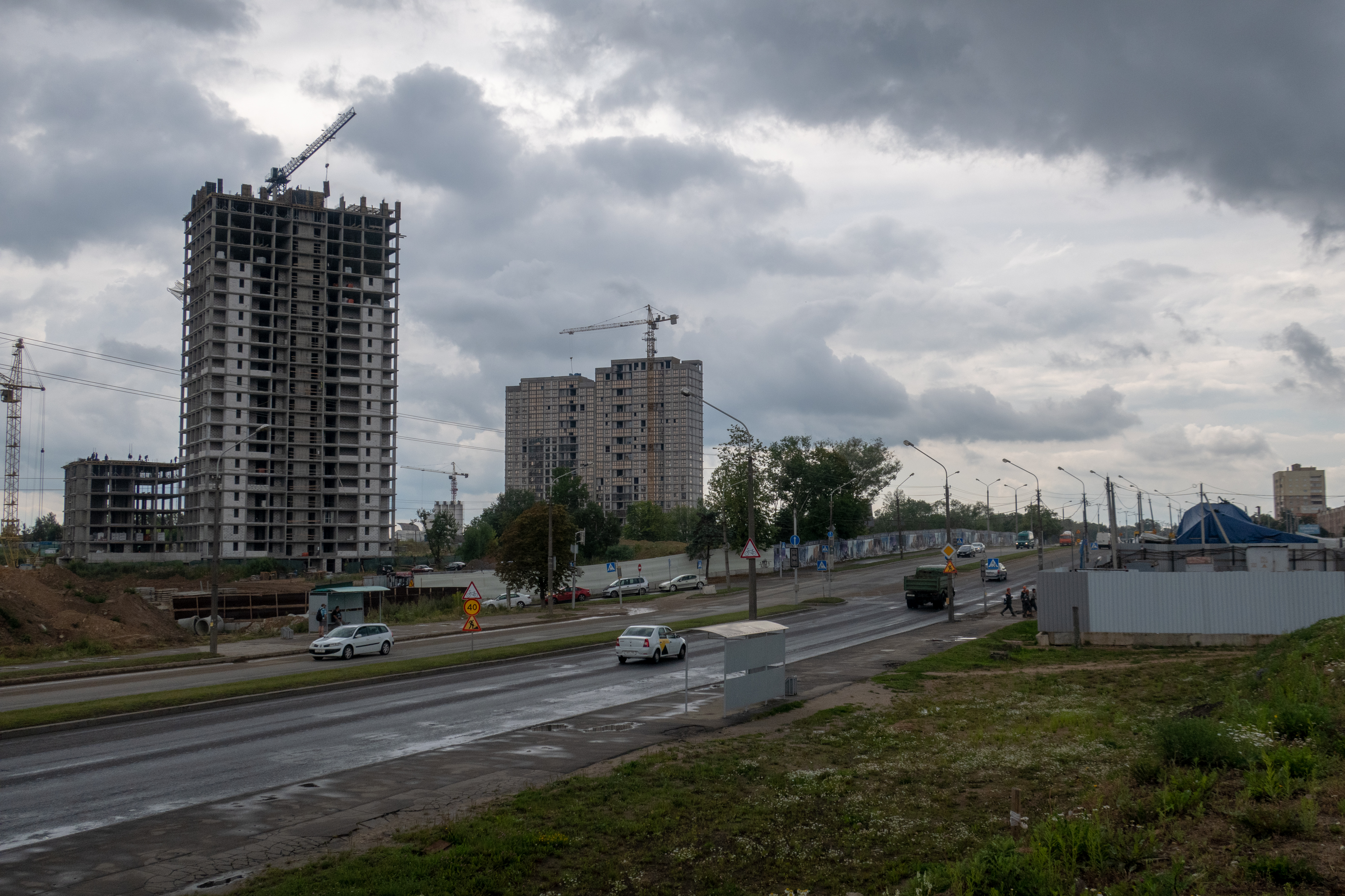 Aeradromnaja street (Minsk, Belarus)